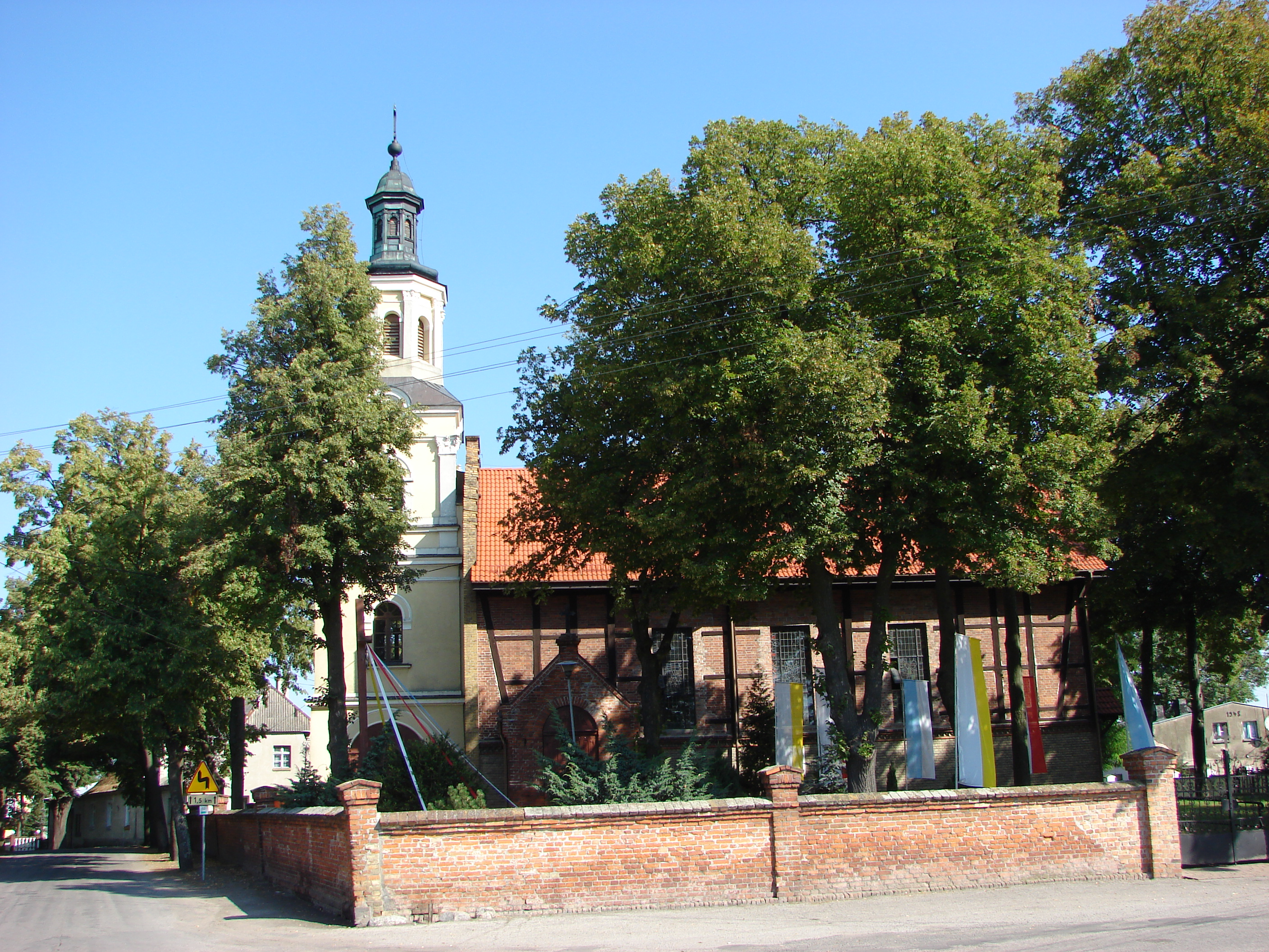 Parchanie, Gmina Dąbrowa Biskupia, parish church